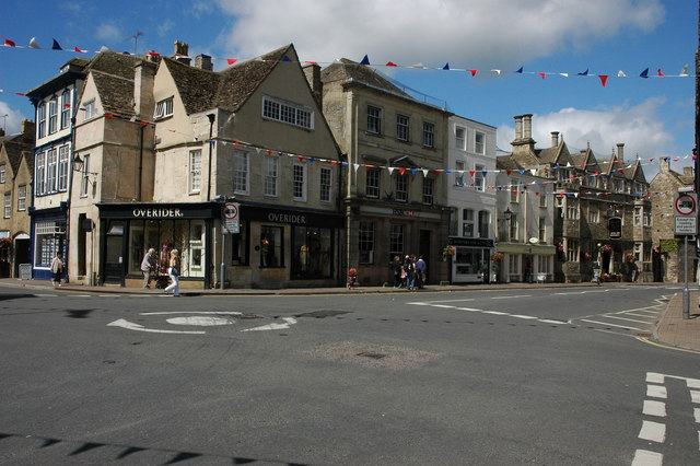 Market Place, Tetbury Market Place in the centre of Tetbury.